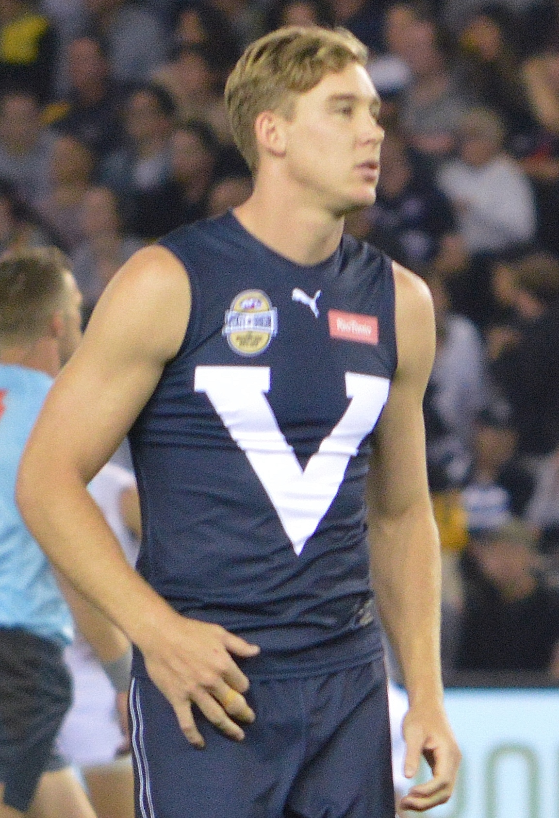 Tom Lynch at the AFL State of Origin for Bushfire Relief Match at Marvel Stadium in February 2020.